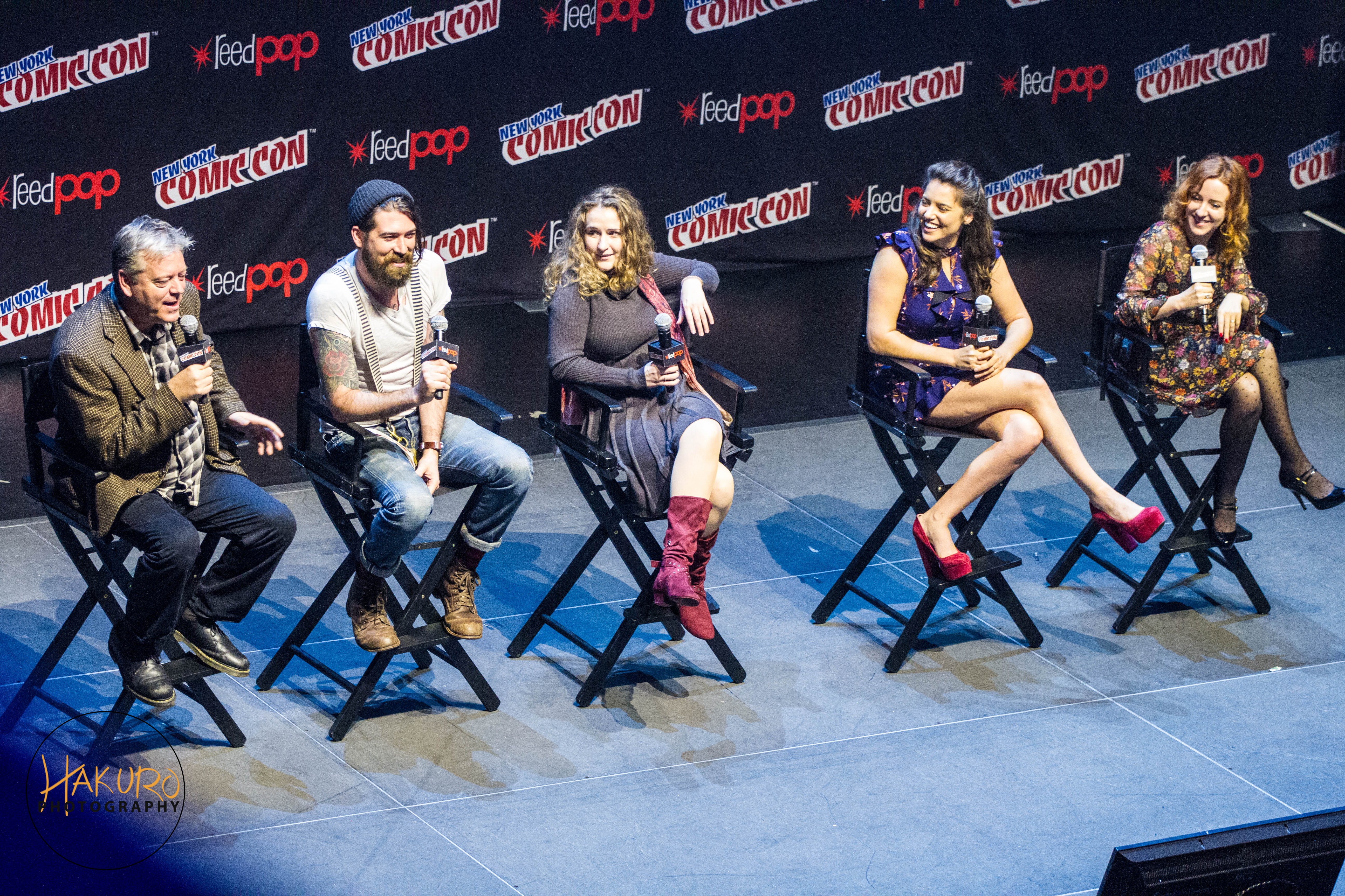 Hey Arnold! The Jungle Movie panel at NYCC 2017